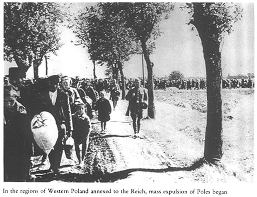 Mass expulsion of Poles in 1939 as part of the German ethnic cleansing of western Poland annexed to the Reich. Poles are being led to the trains under German army escort.